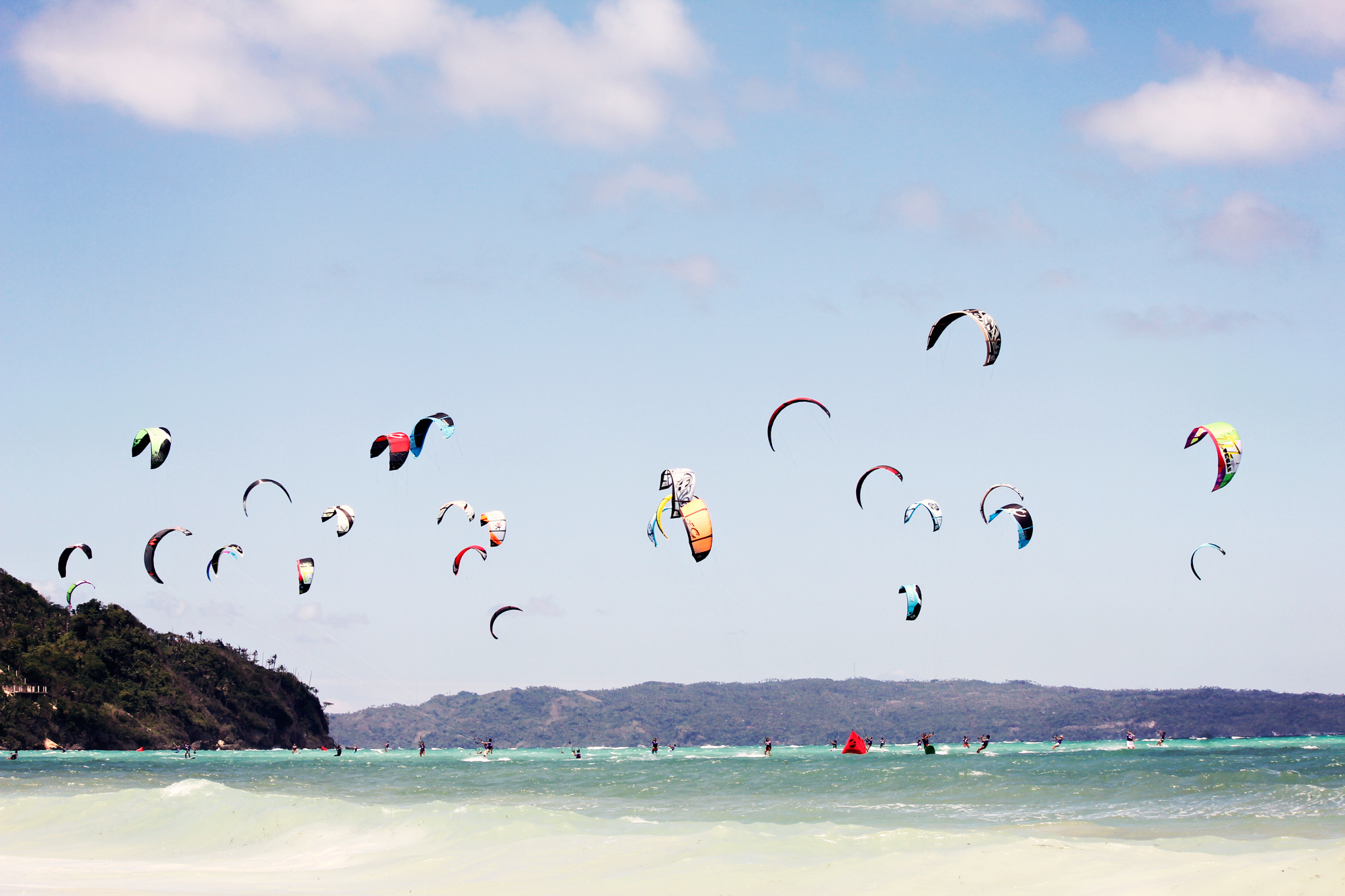 Boracay.